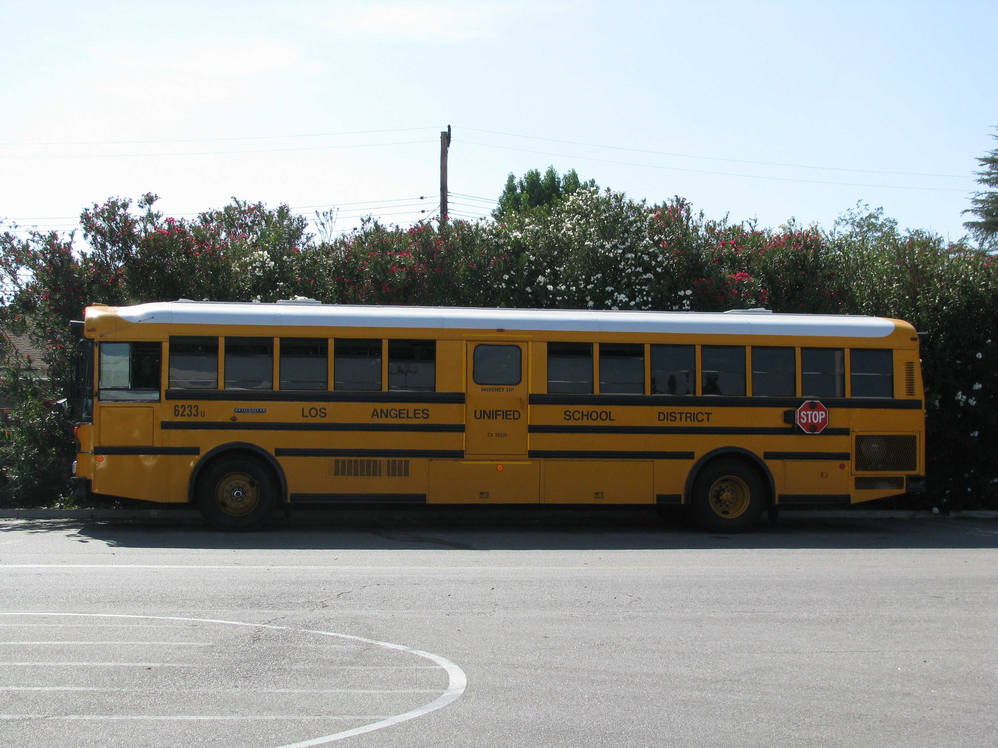 A side view of bus #6233U operated by Los Angeles Unified School District of Los Angeles, California. The bus is an early to mid-1990s Thomas WestcoastER (Saf-T-Liner ER)